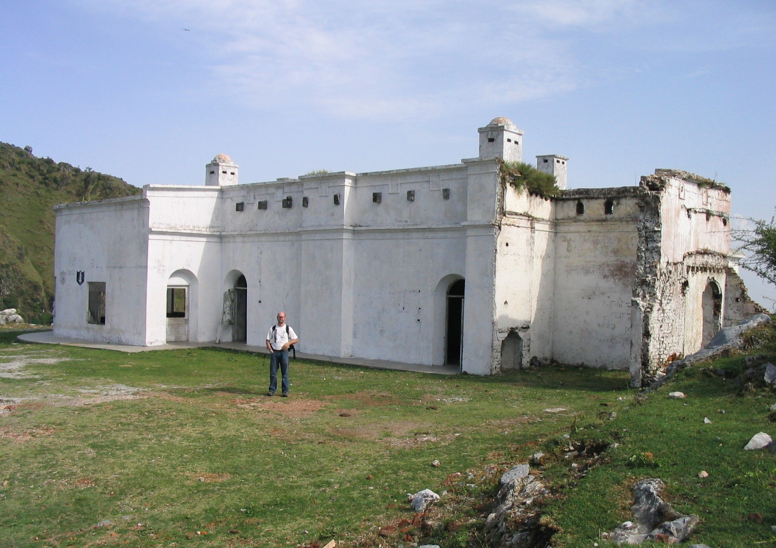 Park House, once owned by George Everest